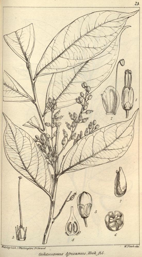 Illustration of Phyllocosmus africanus (Orig. Ochthocosmus africanus)